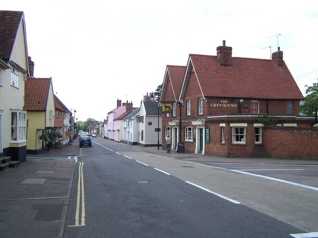 The Greyhound, Ixworth